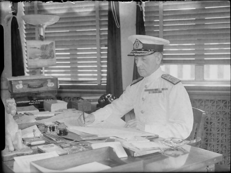 The Royal Navy during the Second World War Admiral Sir Percy L H Noble, KCB, CVO, head of the British Admiralty Delegation in Washington, at his desk.